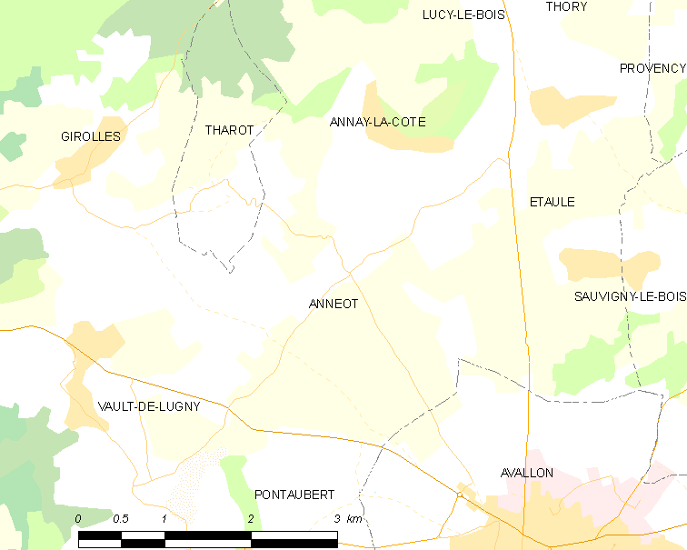 Map of French municipality Annéot